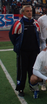 Serbian soccer coach Milan Čančarević.